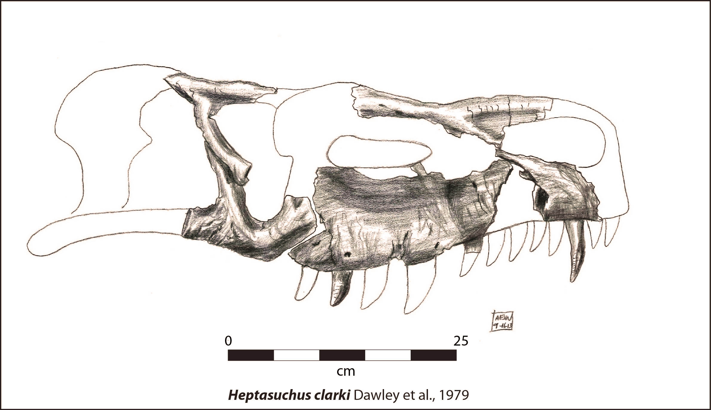 Heptasuchus skull with scale